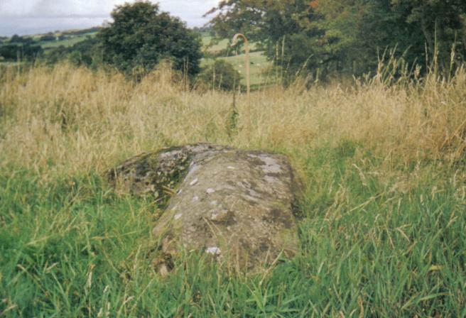 The Carlin Stone at Common Crags in Dunlop, Ayrshire. The name means 'witch' in Gaelic.